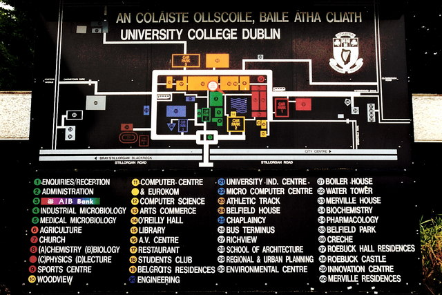 University College Dublin campus sign near entrance